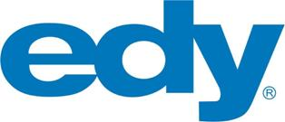 Edy Group logo.jpg